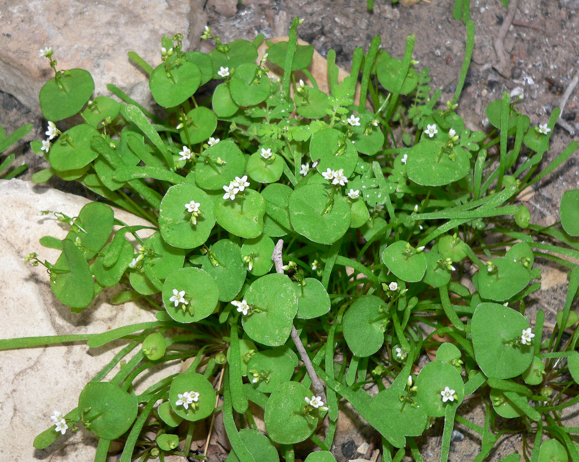 Claytonia parviflora subsp. utahensis in Icebox Canyon, Red Rock Canyon, Spring Mountains, southern Nevada (elev. about 1400 m)